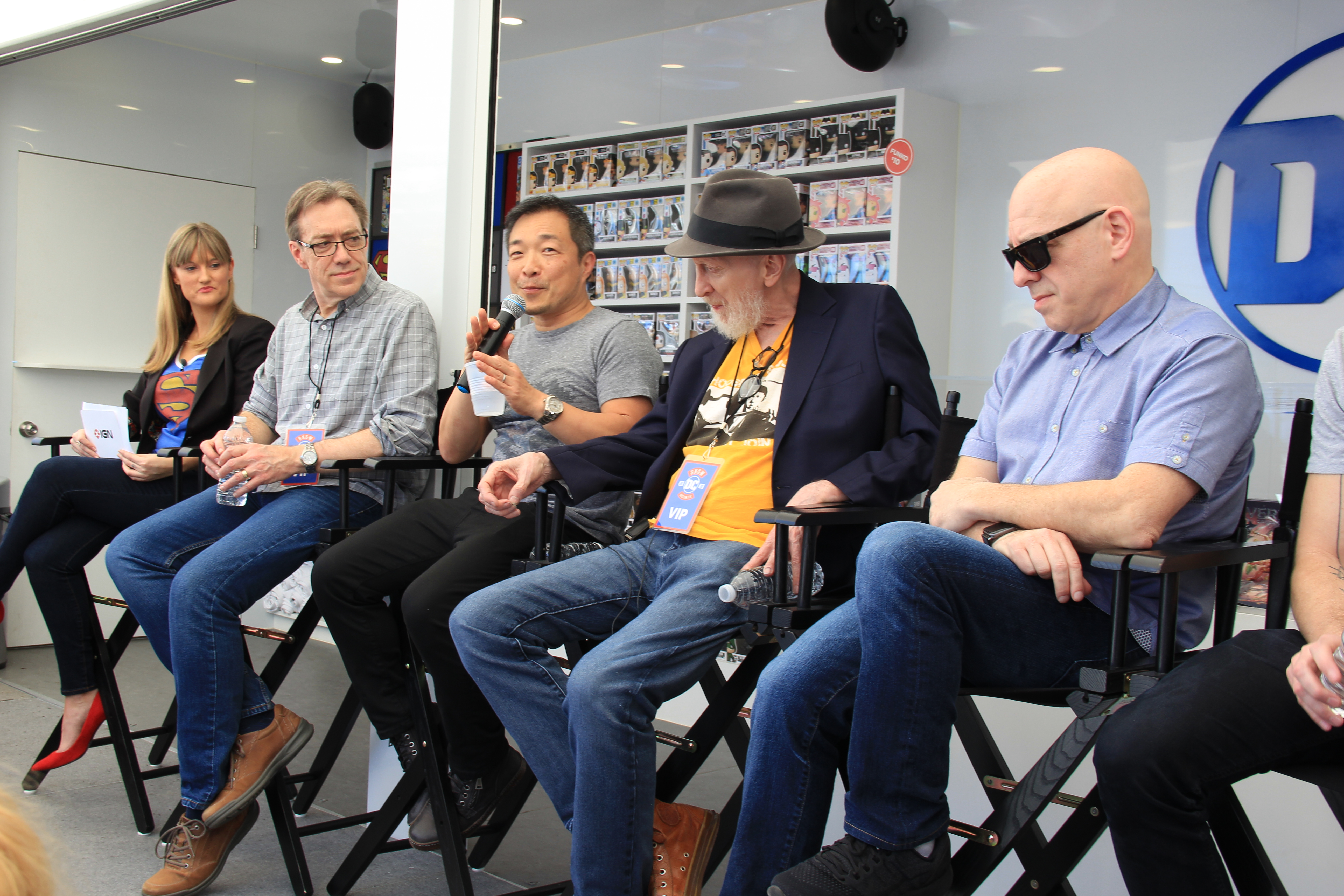 Panel at SXSW 2018 on Superman's 80th anniversary and the release of Action Comics #1000.